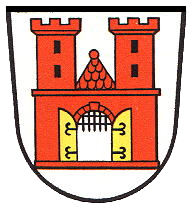 Coat of Arms of Offenburg Bild:Wappen Offenburg.png